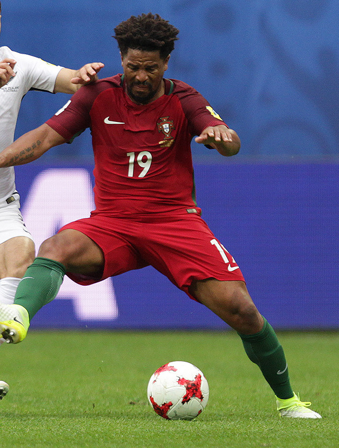 New Zealand VS. Portugal 0 - 4, 24 June 2017